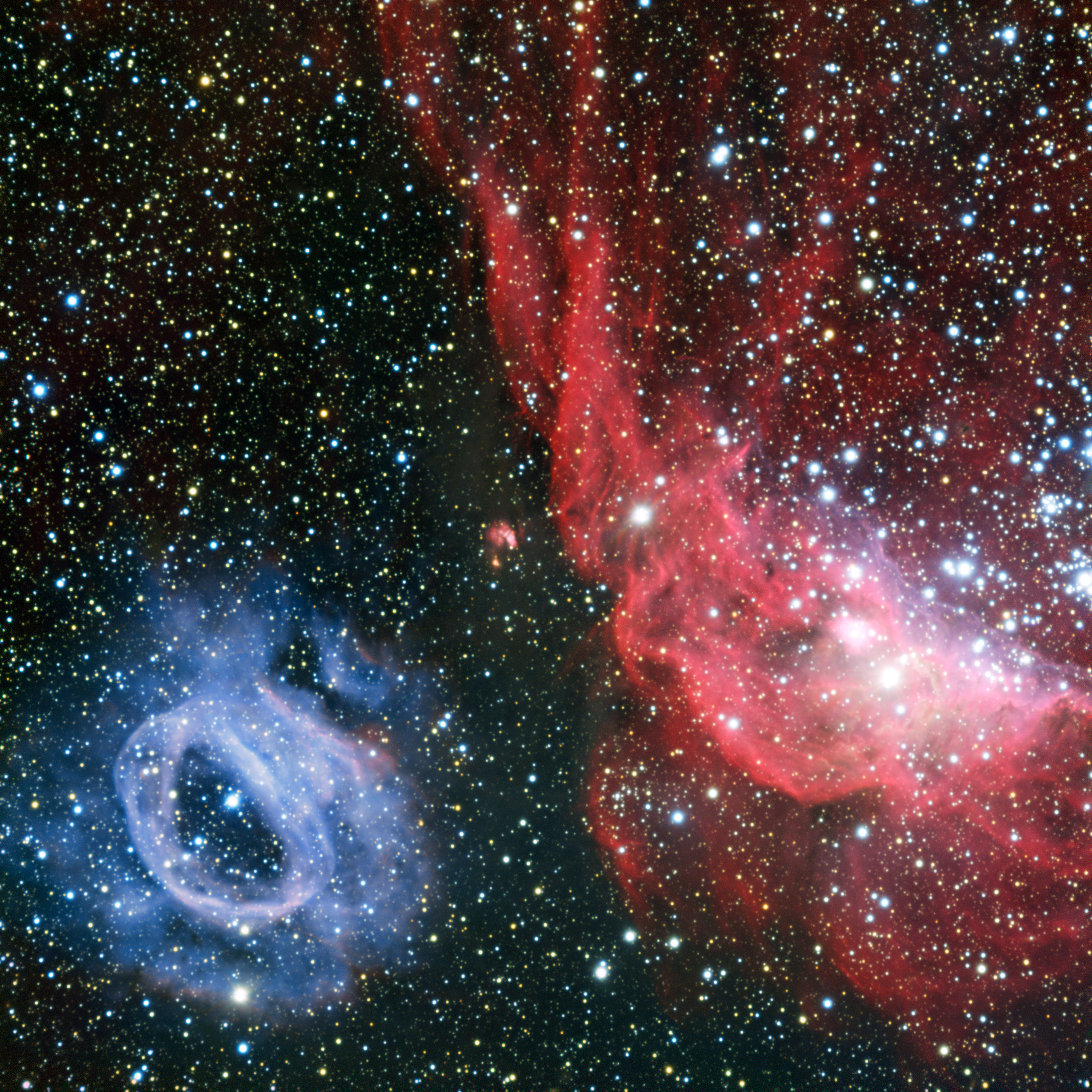 ESO's Very Large Telescope has captured a detailed view of a star-forming region in the Large Magellanic Cloud — one of the Milky Way's satellite galaxies. This sharp image reveals two glowing clouds of gas. NGC 2014 (right) is irregularly shaped and red and its neighbour, NGC 2020, is round and blue. These odd and very different forms were both sculpted by powerful stellar winds from extremely hot newborn stars that also radiate into the gas, causing it to glow brightly.